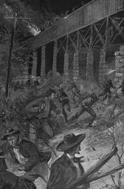 Engraving in Barton's A Hero In Homespun depicting the burning of a railroad bridge in East Tennessee on the night of November 8, 1861.